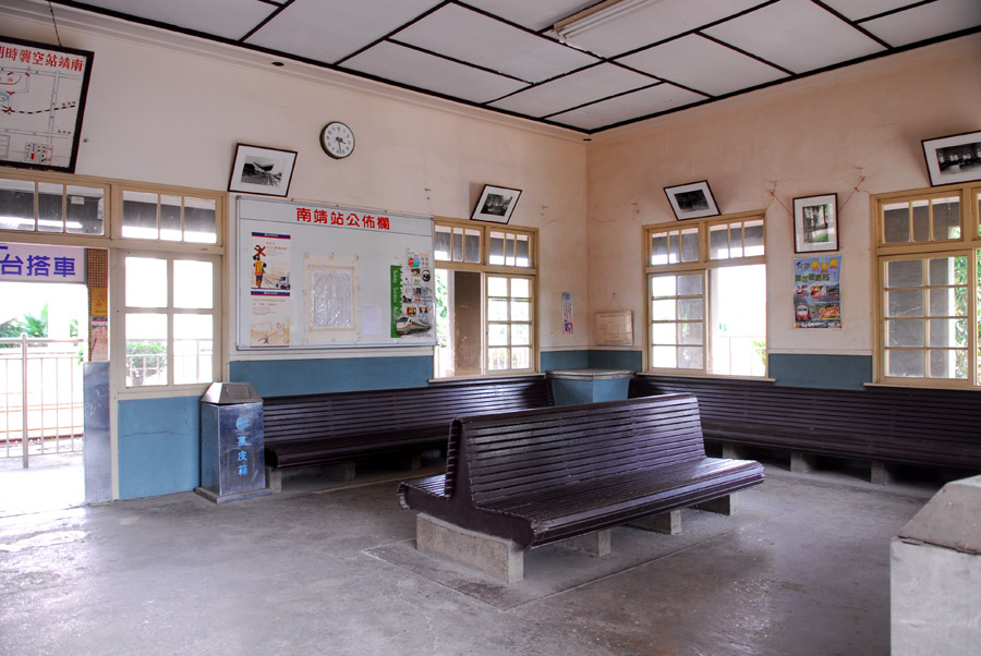 NanJing Station is a local train station of Taiwan's Western main rail line. It's located within the boundary of ShueiShang Township, ChiaYi County. This photo shows the wooden benches in NanJing's waiting lobby.